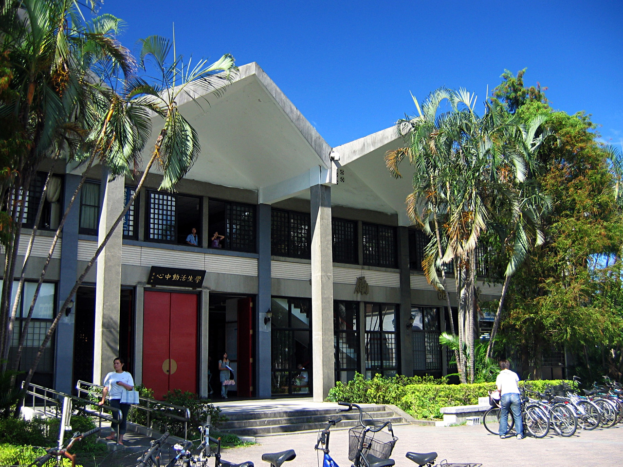 1st Student Activity Center, National Taiwan University.中文（台灣）: 國立臺灣大學第一學生活動中心。